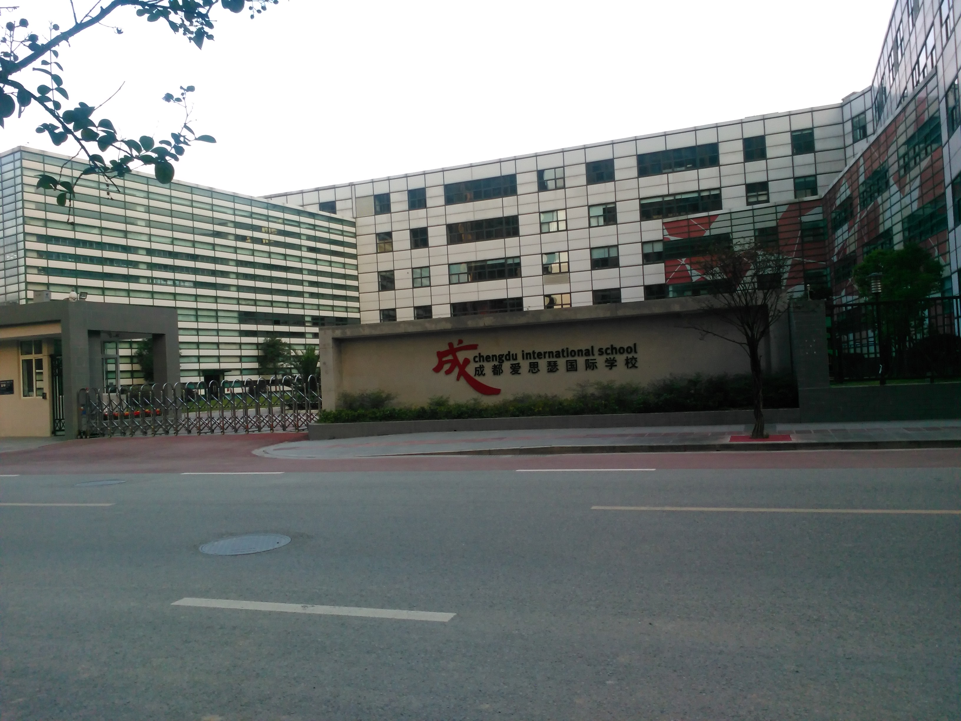 Chengdu International School